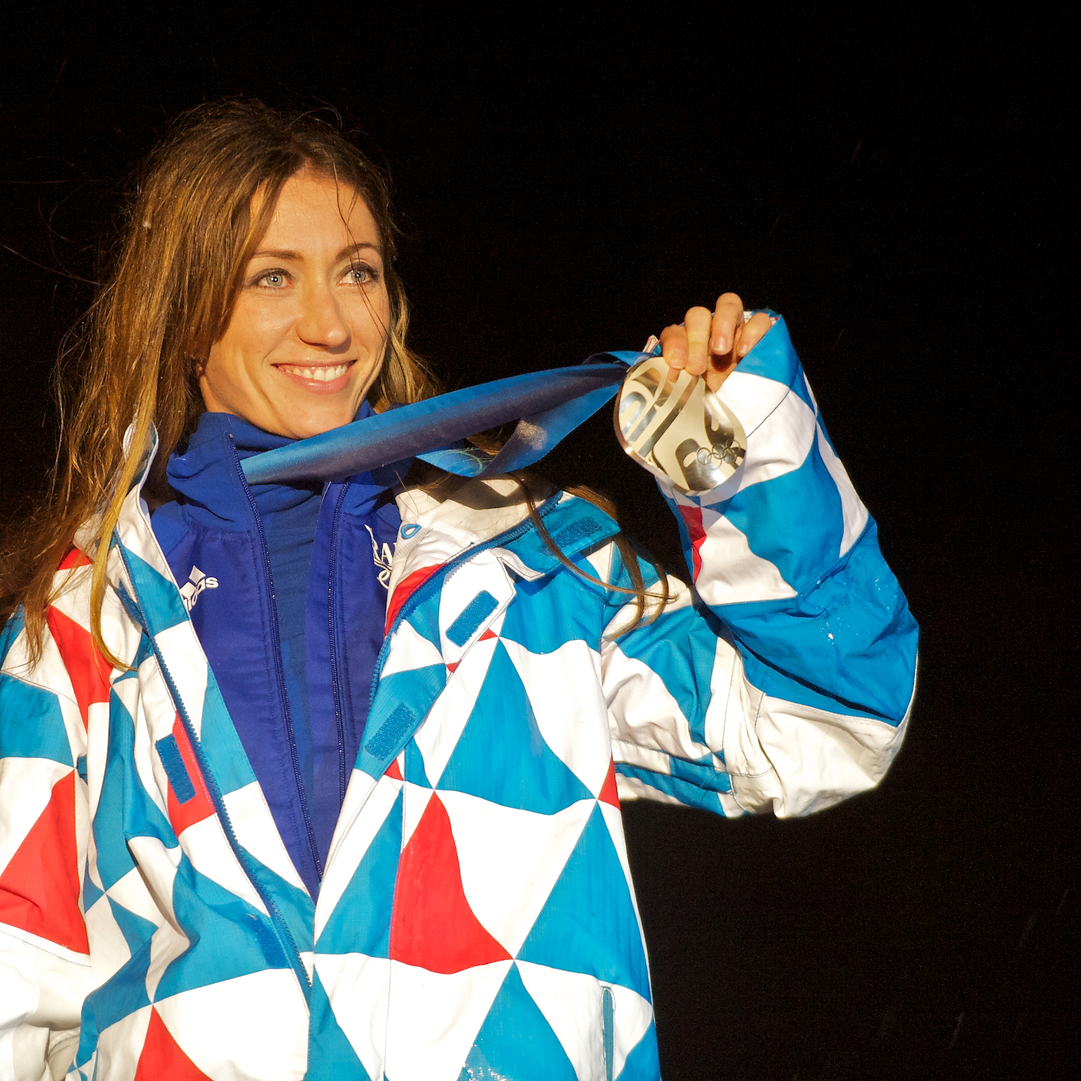 Deborah Anthonioz, the Silver Medalist in the Snowboard Cross at the 2010 Winter Olympics Games in Vancouver. Photo taken in Les Gets, the French ski resort were Deborah is a snowboard teacher, during a welcome-home show for her.